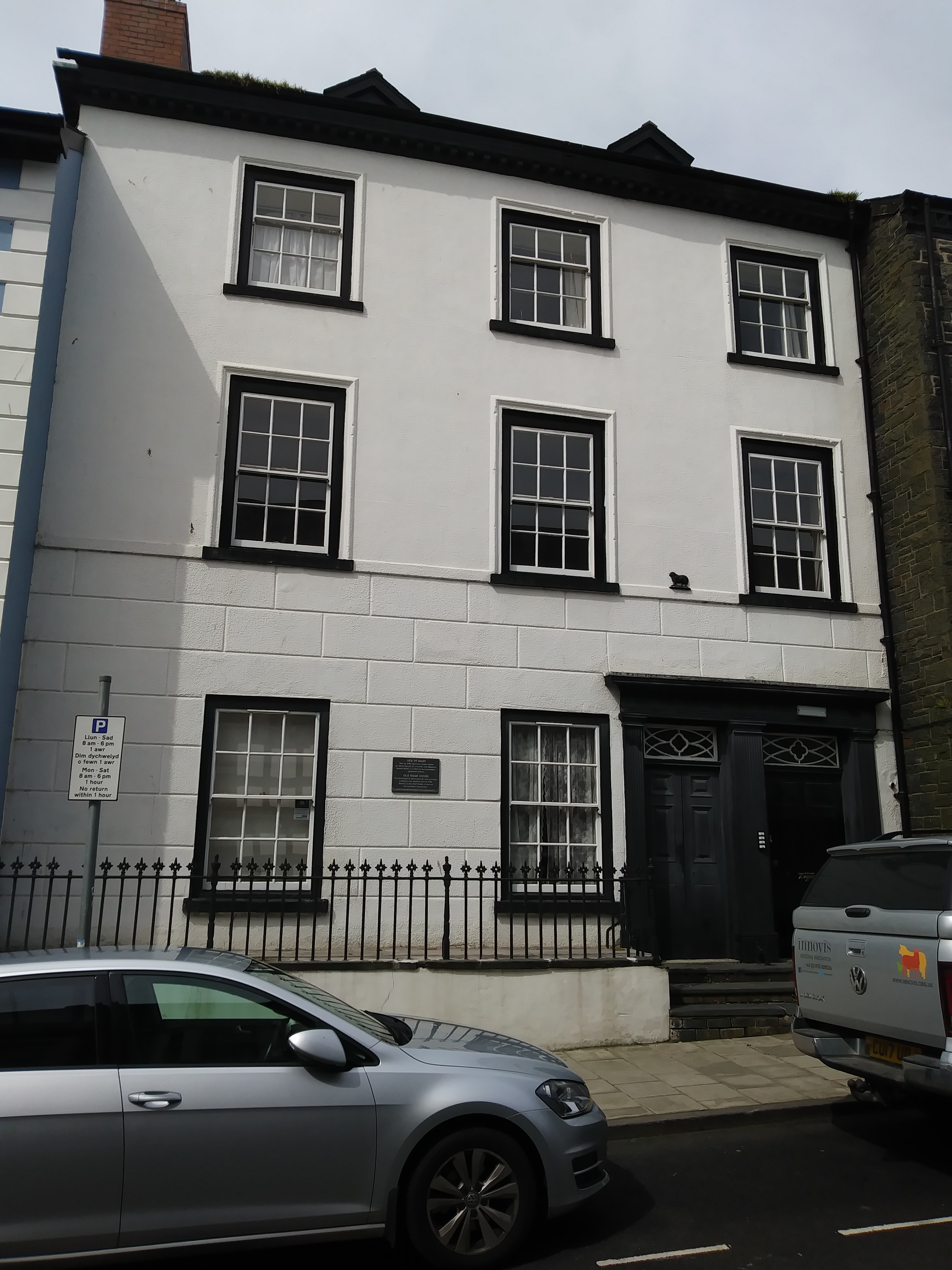 House with Black Sheep Bank motif, Aberystwyth